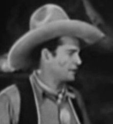 Yakima Canutt in Sagebrush Trail (1933)